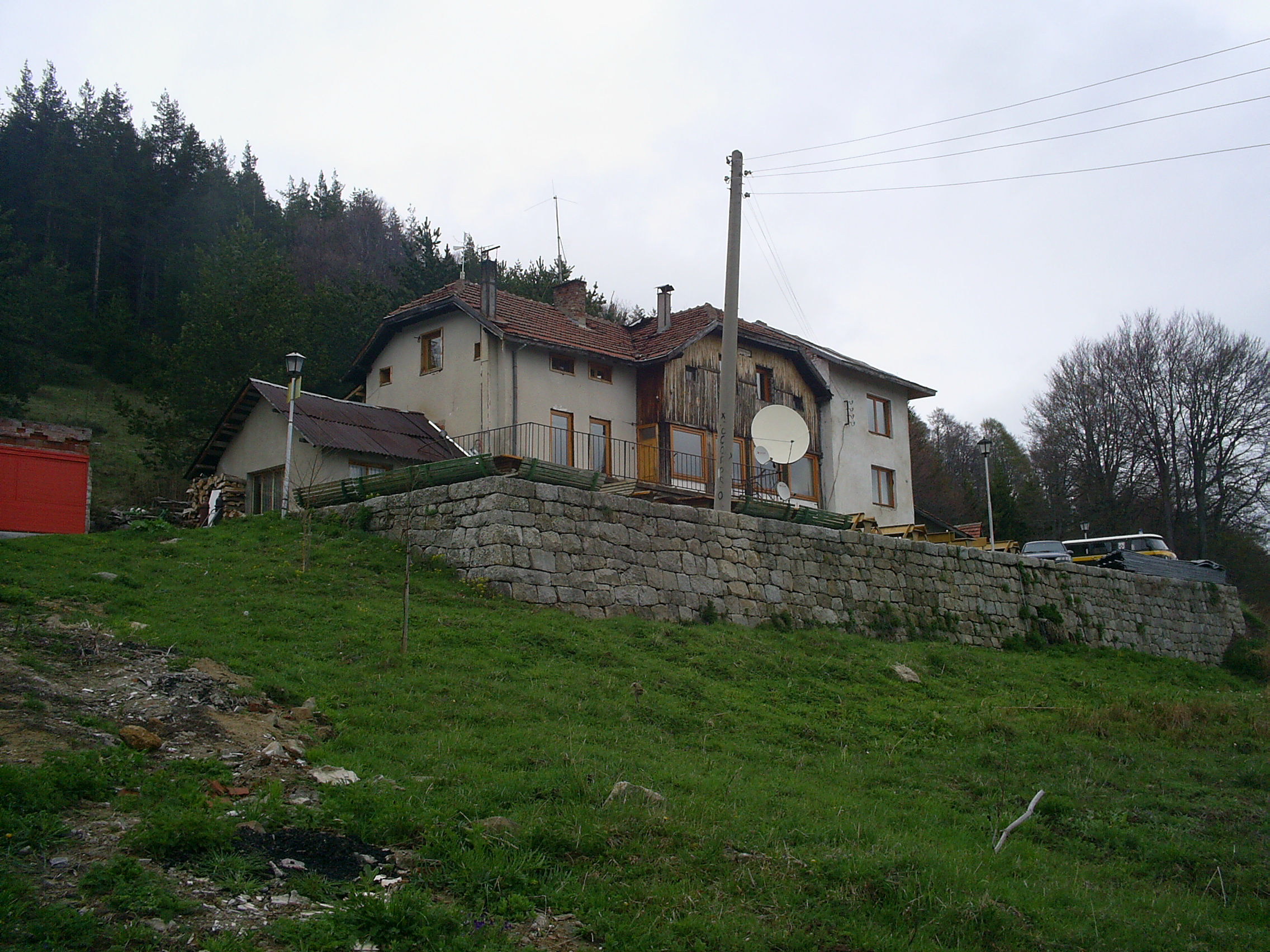 Hut "Osogovo" in Osogovo mountain, Bulgaria